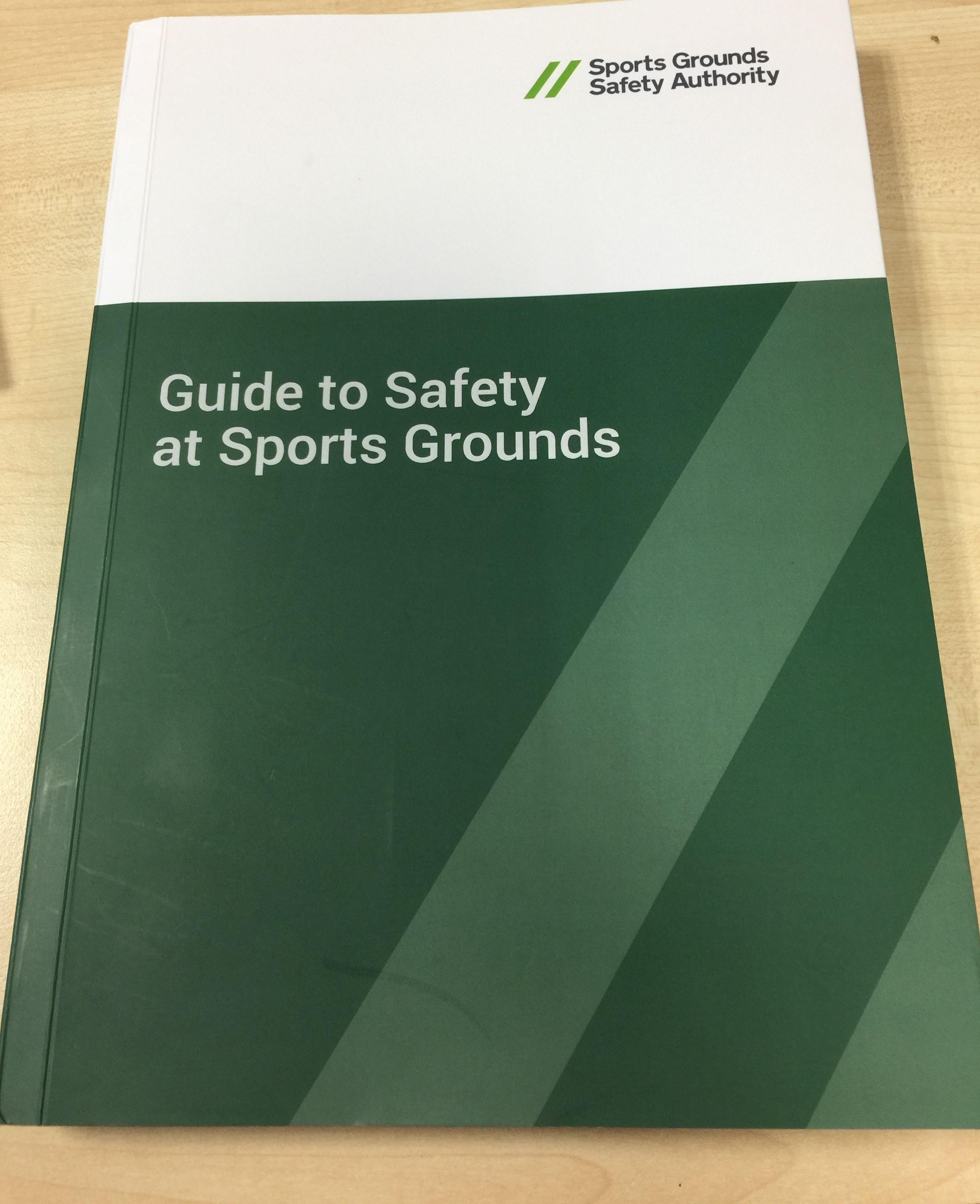 Green Guide sixth edition cover